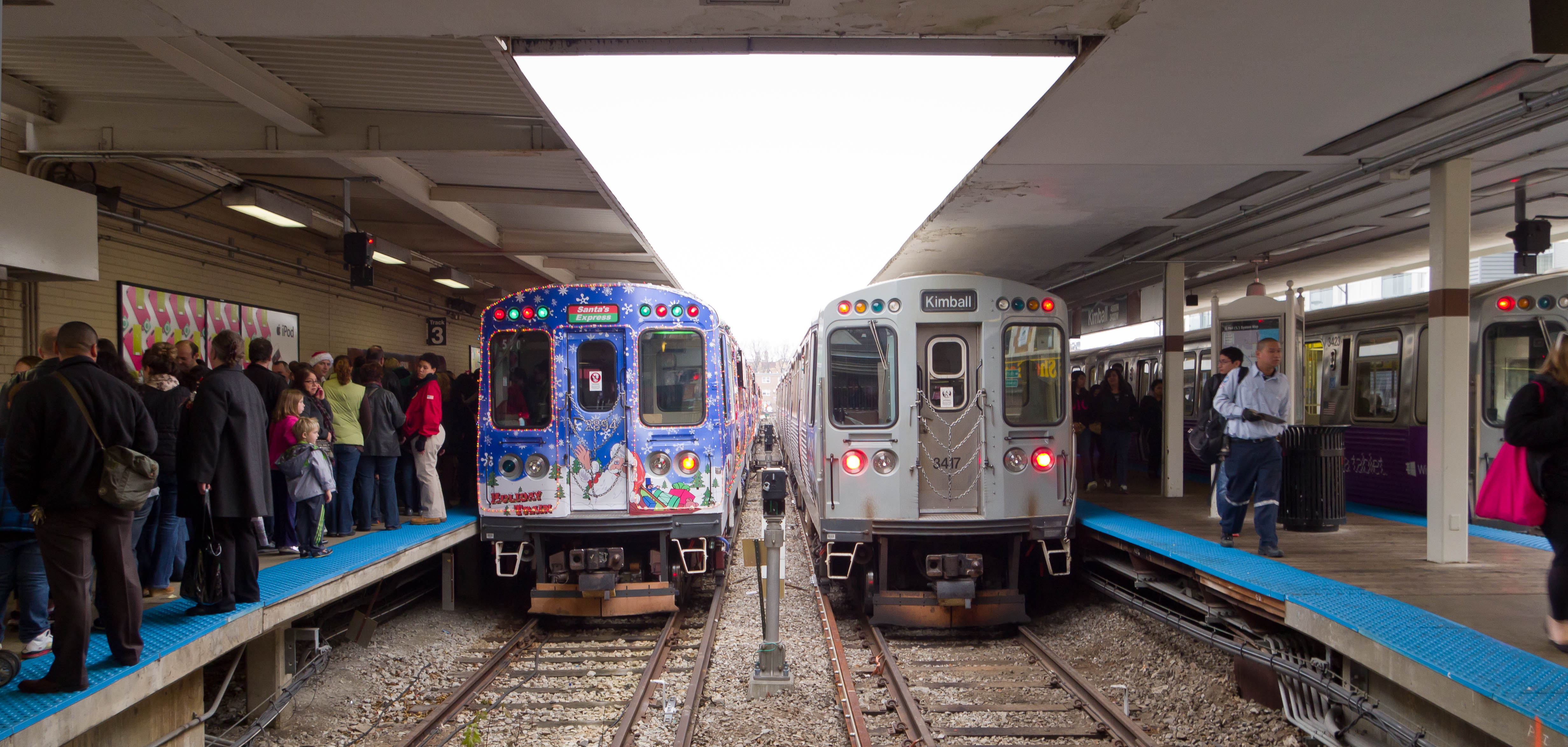 Kimball station on the Chicago Transit Authority's Brown Line: a line of people waiting for photographs with Santa on the CTA Holiday Train, Santa's Express.